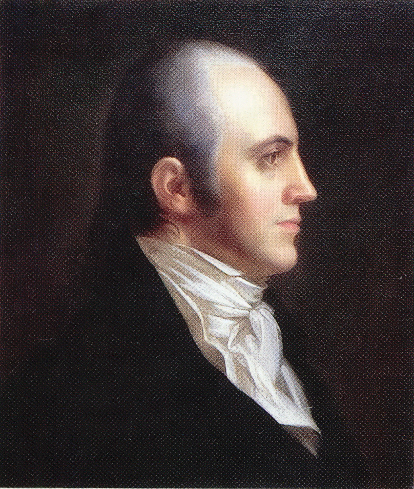 Aaron Burr. 3rd vice president of the United States.